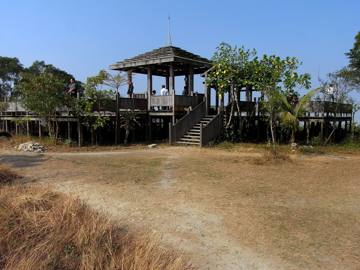 Top of Mt. Ban Ping, Kaohsiung, Taiwan。